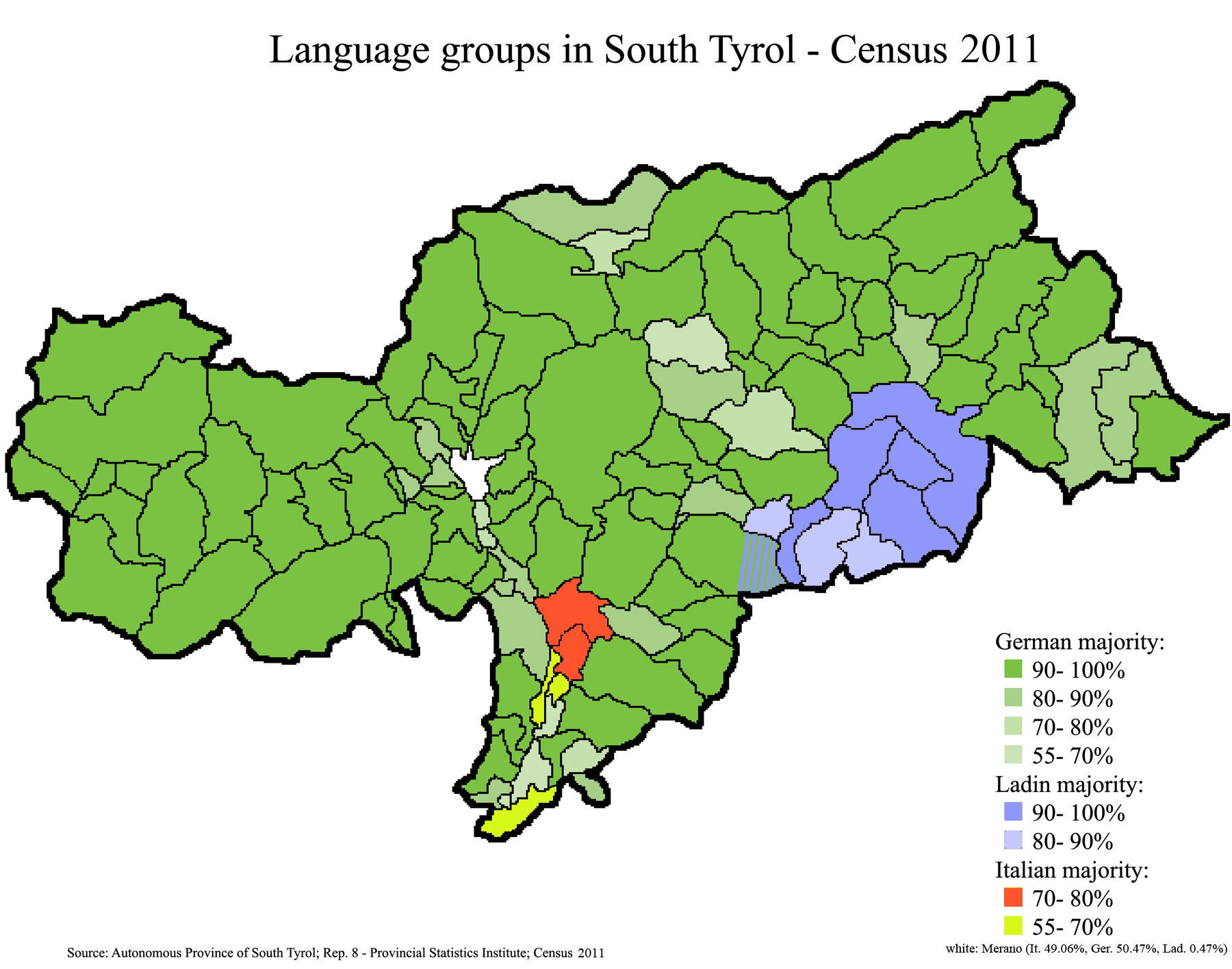 Majority languages in the South Tyrolean municipalities (communes) according to the last census of 2011. Green: German (103 municipalities) Blue: Ladin (8 municipalities) Red: Italian (5 municipalities)